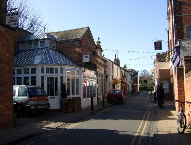 North Parade North Parade, which is a mile or so south of South Parade, is supposedly the further point patrolled by the Royalist troops defending Oxford during the Civil War. In fact there is no evidence for this but this short, narrow street is a useful resource for the neighbourhood and possesses a village ambience.